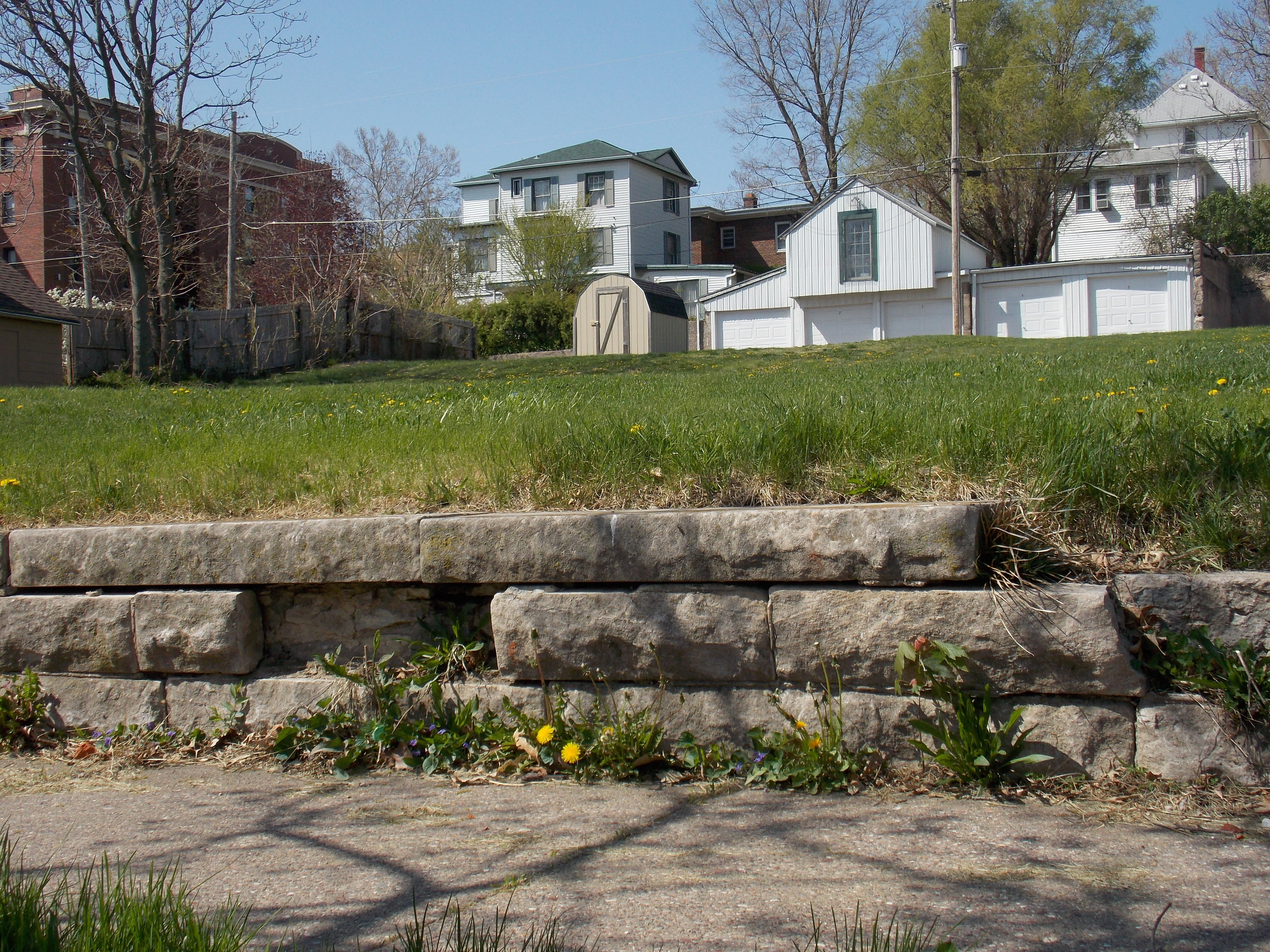 The retaining wall that was in front of the Warner Apartment Building, which has been torn down. The building was listed on the National Register of Historic Places.